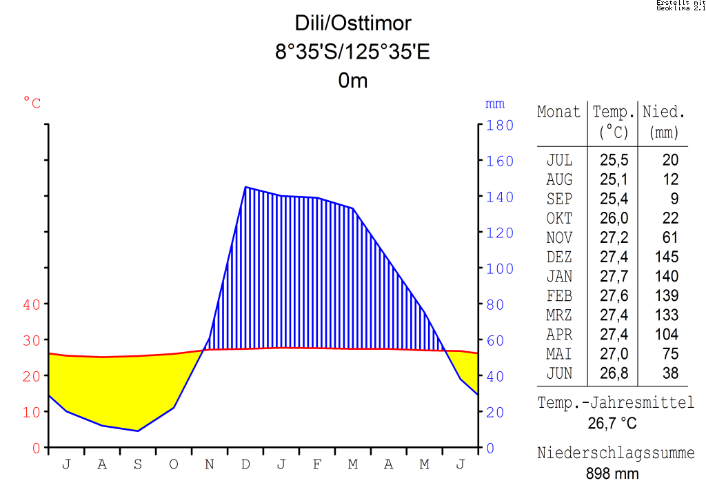 climate chart in the format by Walther and Lieth, metric, °Celsisus and millimeters, made with Geoklima 2.1